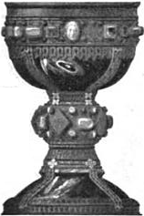 Early 20th Century black and white image of the Chalice of Doña Urraca.